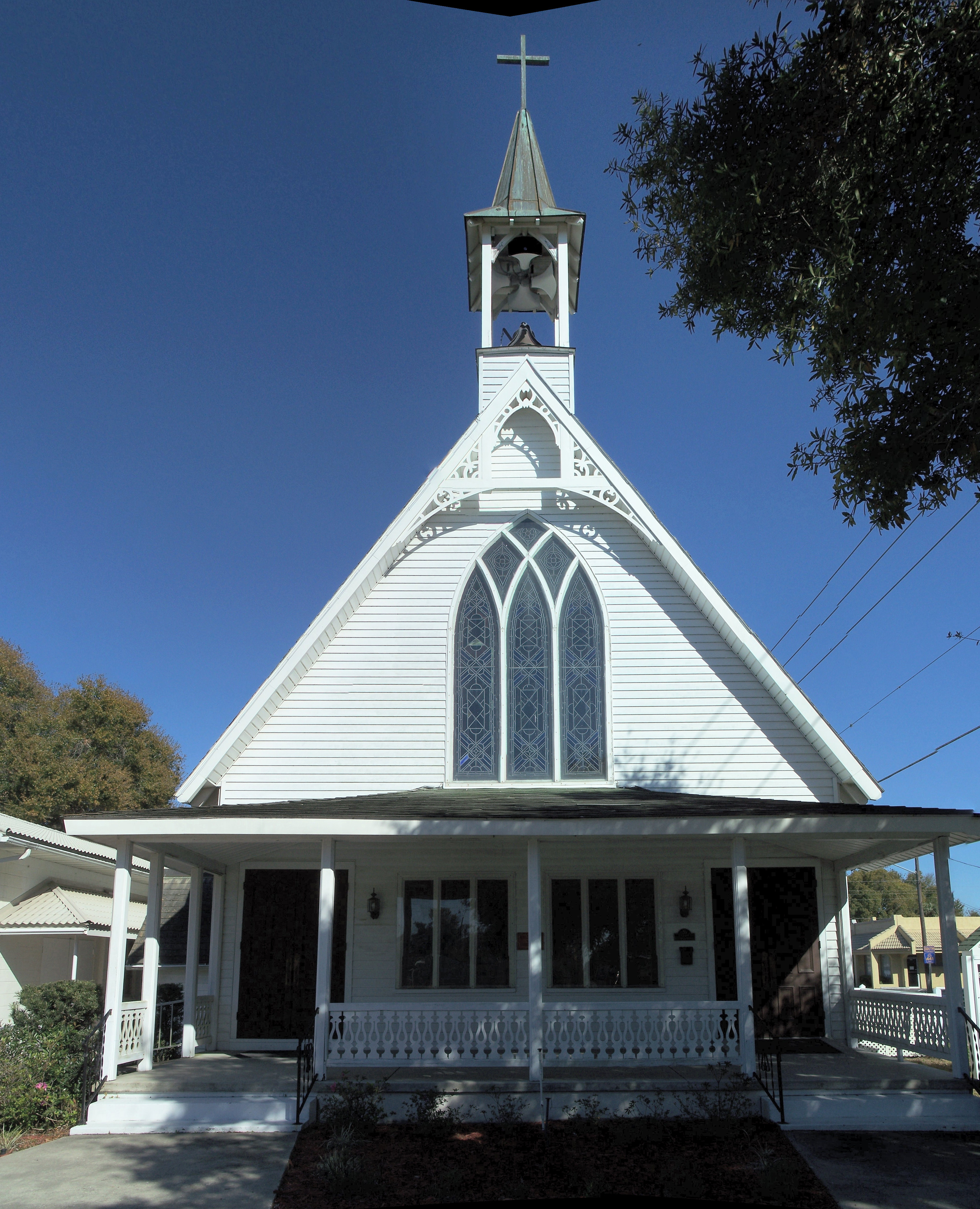 Tavares, Florida: Union Congregational Church. Listed in A Guide to Florida's Historic Architecture.